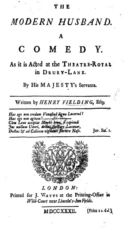 Fielding, Henry. The modern husband. A comedy. As it is acted at the Theatre-Royal in Drury-Lane. By His Majesty's servants. London: Printed for J. Watts, 1732.